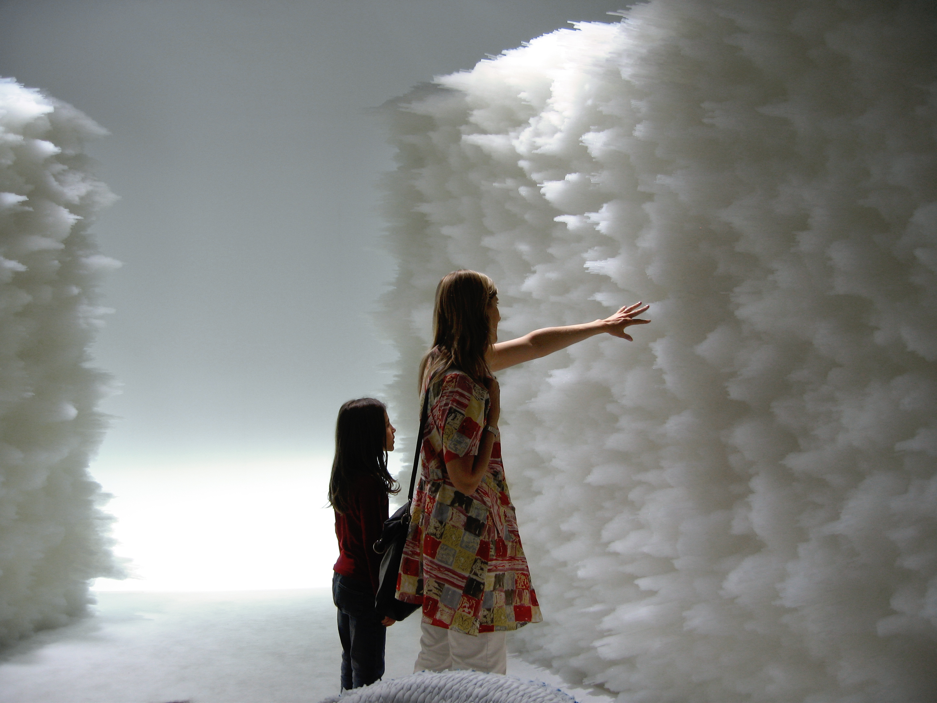 Tokujin x Moroso 2007 by Tokujin Yoshioka